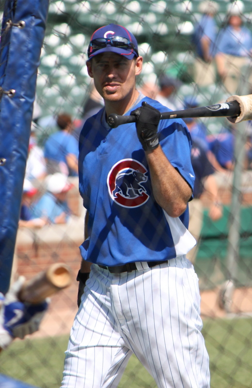 Micah Hoffpauir of the Chicago Cubs getting ready to take swings in batting practice.